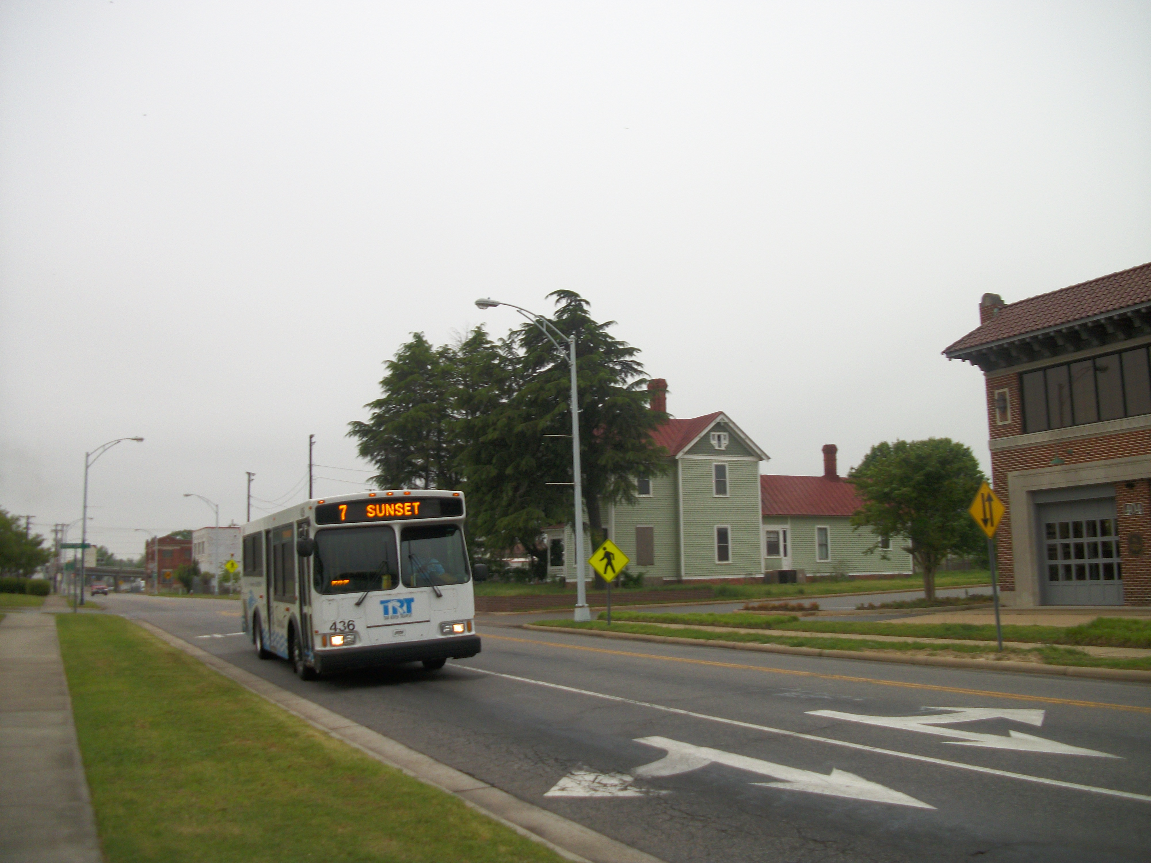 Tar River Transit's Number 7 Sunset bus passes in front of the Helen P. Gay Railroad Station and Rocky Mount Fire Museum.